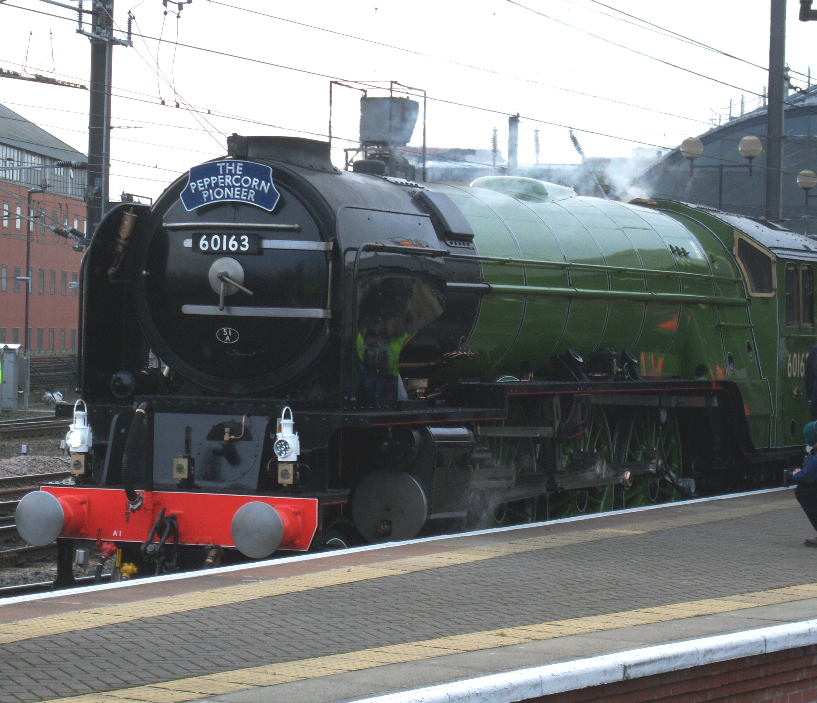 Brand new steam locomotive 60163 Tornado in Newcastle Central Station on her maiden main line passenger journey, The Peppercorn Pioneer